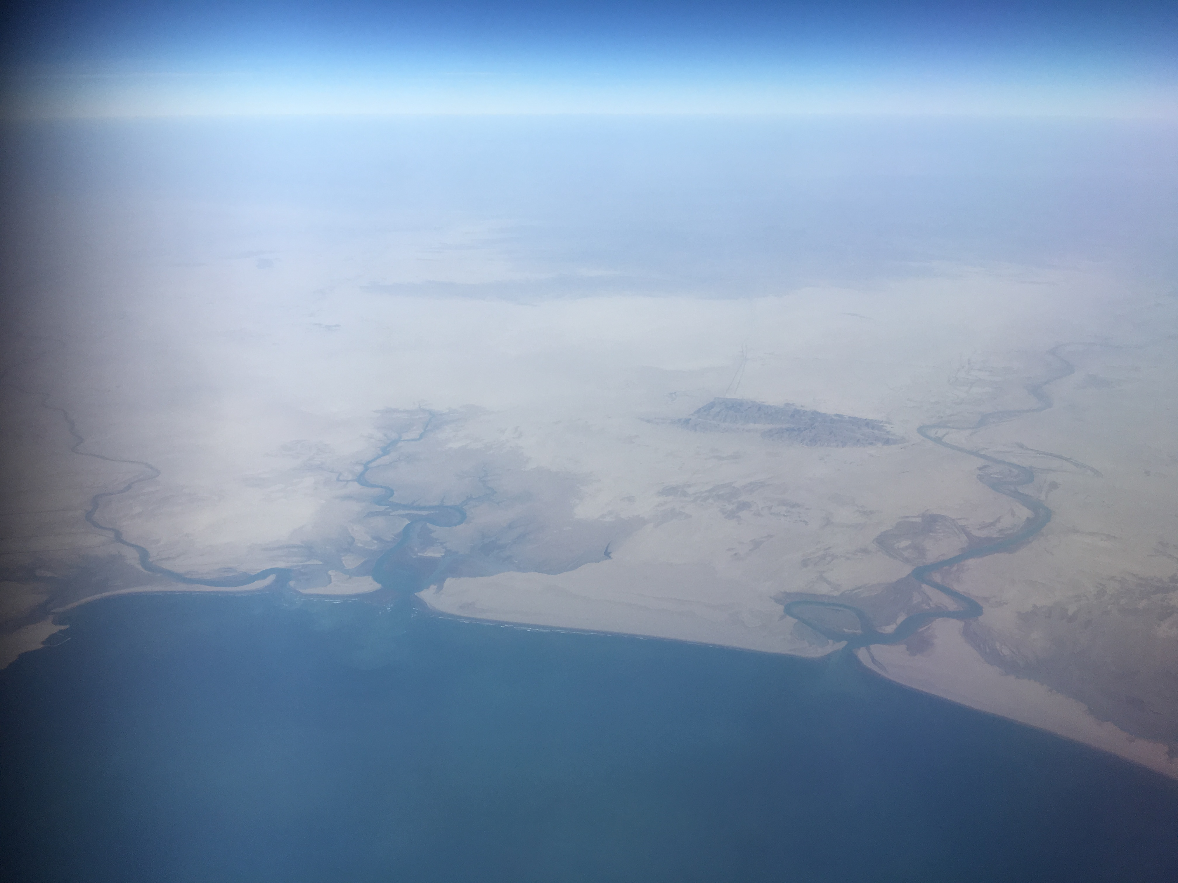 Aerial view over the Jiwali Bay area of northern Arabian Sea. To the left is Iran with the Bahu Kalat river. To the right is Pakistan with the Dasht river.